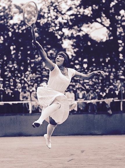 French tennis player Suzanne Lenglen playing against Mme Golding at the 1922 French Championships at the Croix-Catalan in Paris.